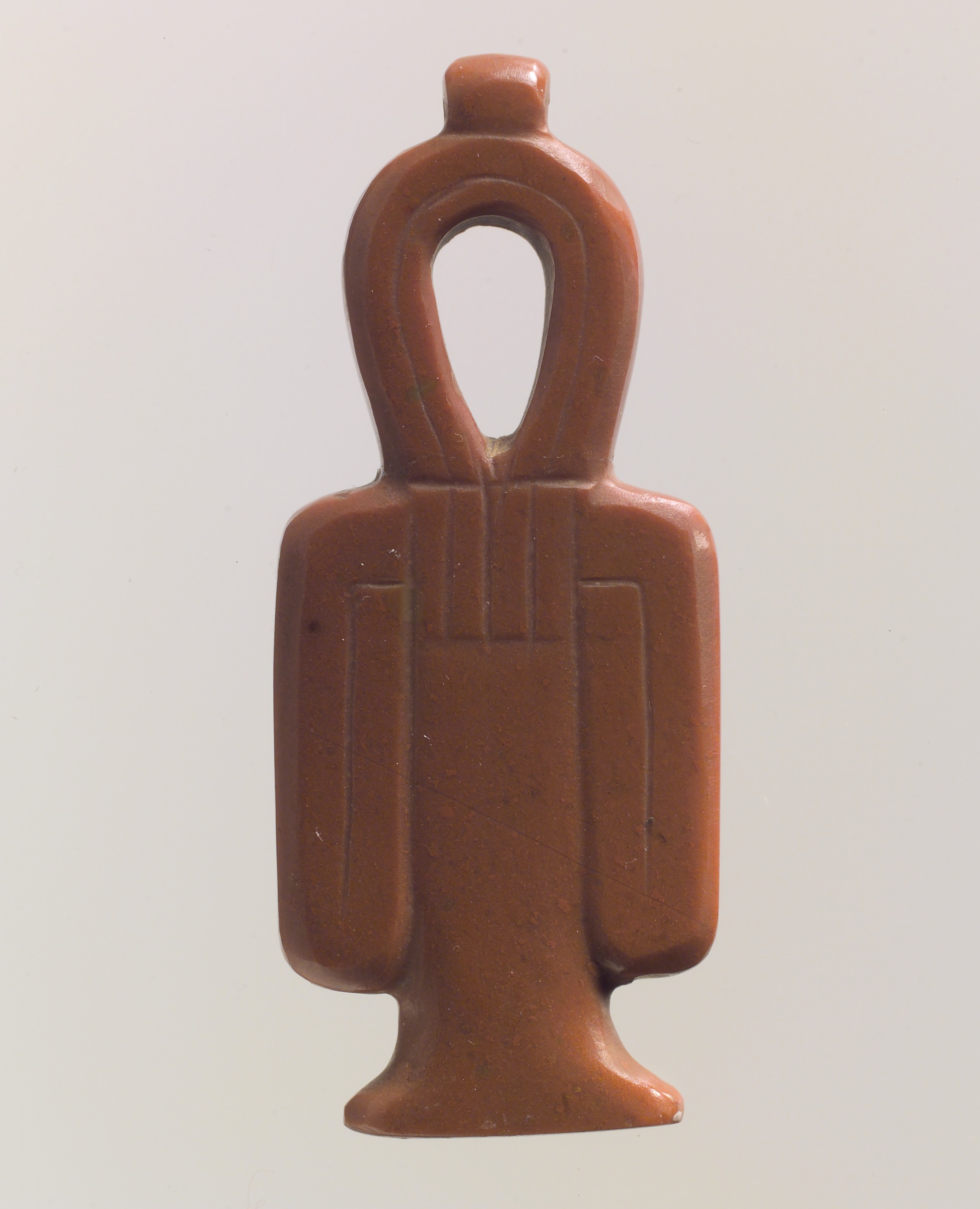 Amulet, tit symbol